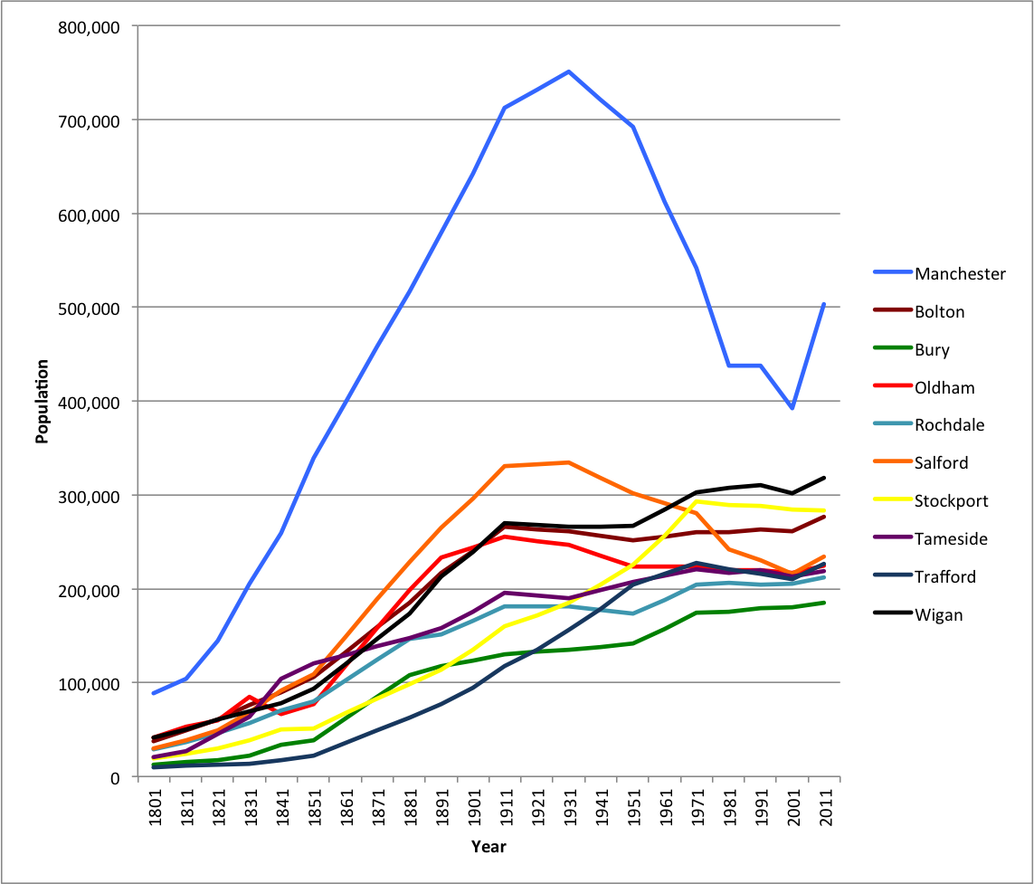 Graphical representation of population between 1801 and 2011 for the 10 metropolitan boroughs of Greater Manchester.